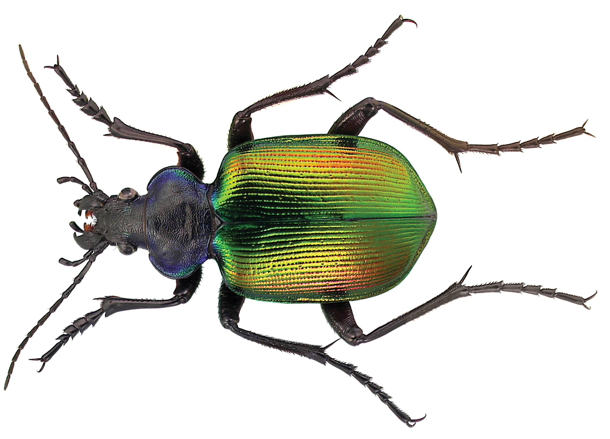 Calosoma sycophanta (Linnaeus). This species is one of only two intentionally introduced carabids in North America that became established on this continent, the other one being Carabus auratus. These species were introduced for the biological control of the gypsy moth, Lymantria dispar, and the browntail moth, Euproctis chrysorrhoea. Since its release in the vicinity of Boston in 1906-1907, Calosoma sycophanta has spread to southern Maine and to West Virginia.